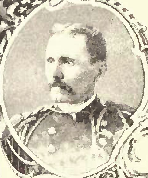 United States Army Major Eli L. Huggins of the 2nd Cavalry Regiment received the Medal of Honor for his actions in the Indian Wars.